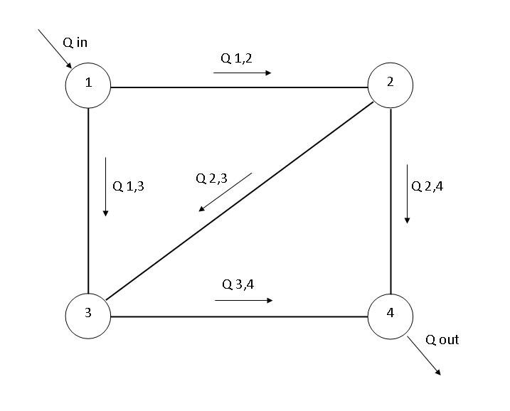 This is an image of a simple pipe network for a Hardy Cross method example